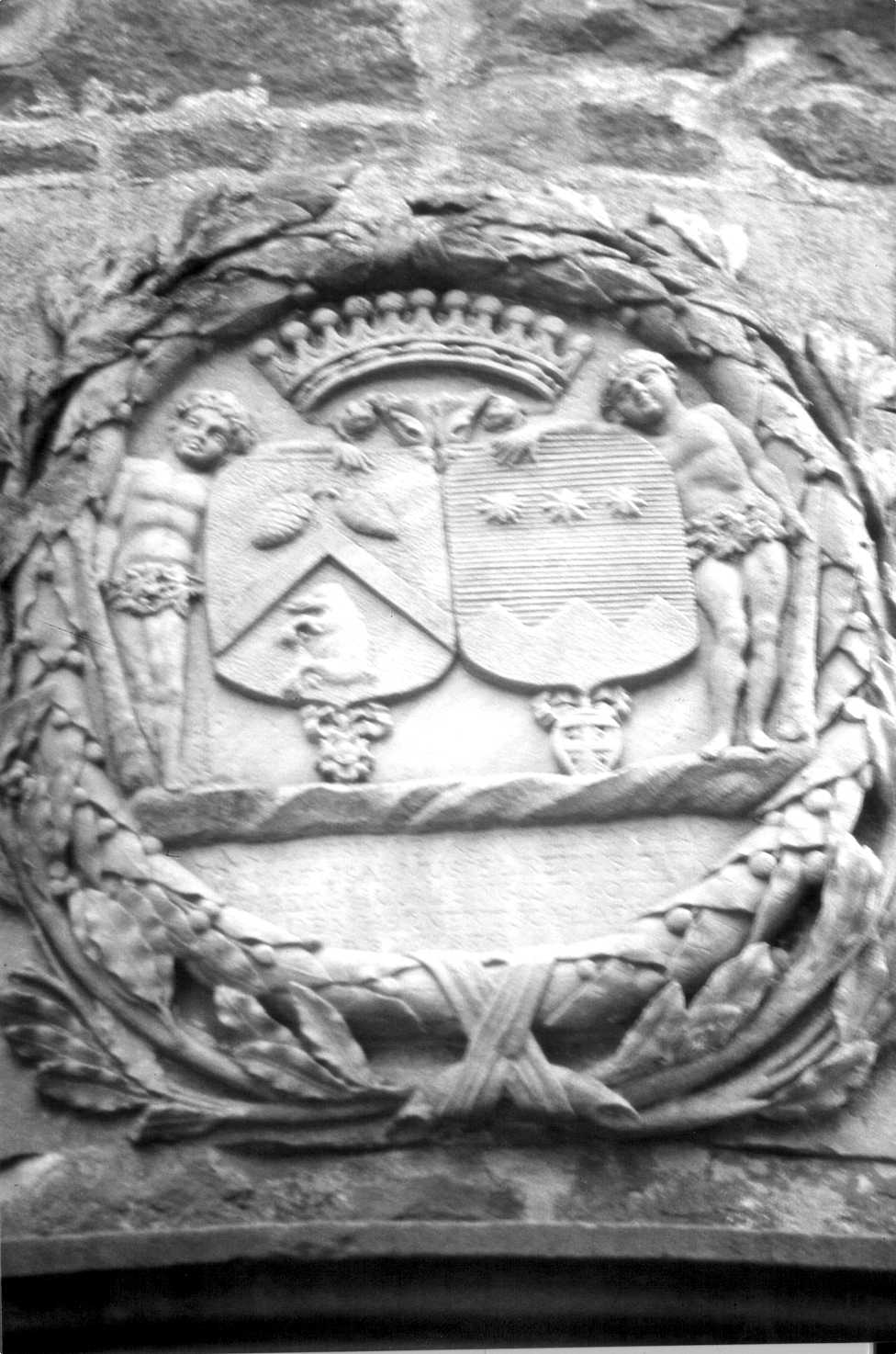 Schloss Birkenwald